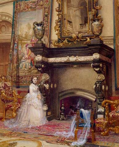 A painting of Hannah de Rothschild standing in the hall of Mentmore Towers painted circa 1869 by E Macimer. This painting which is over 130 years old is in the public domain by virtue of age